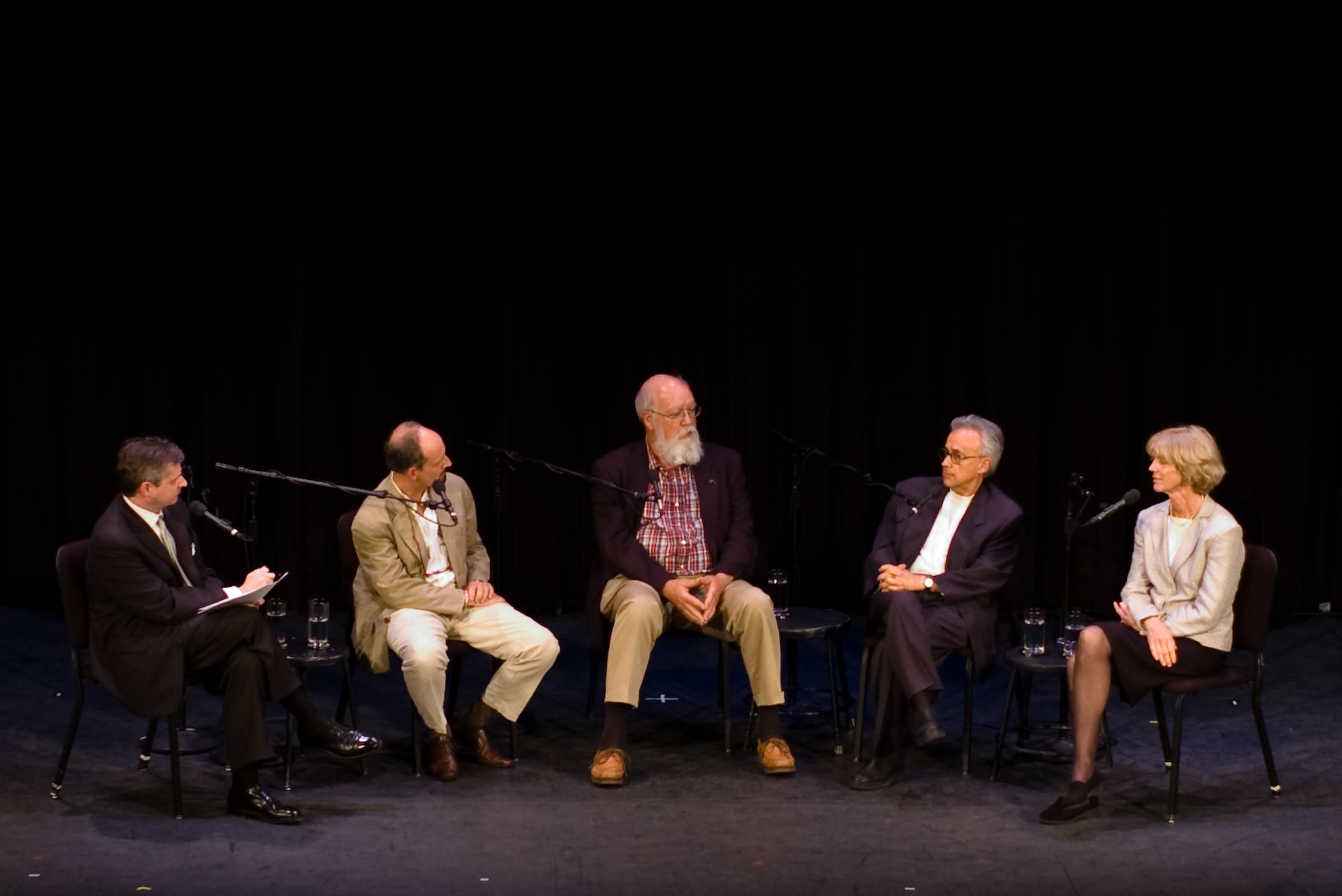 From left to right: Jon Meacham of Newsweek (moderator), Marc Hauser, Daniel Dennett, Antonio Damasio and Patricia Churchland.